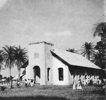 Church (of the Disciples of Christ Congo Mission) in the village of Bolenge, Belgian Congo